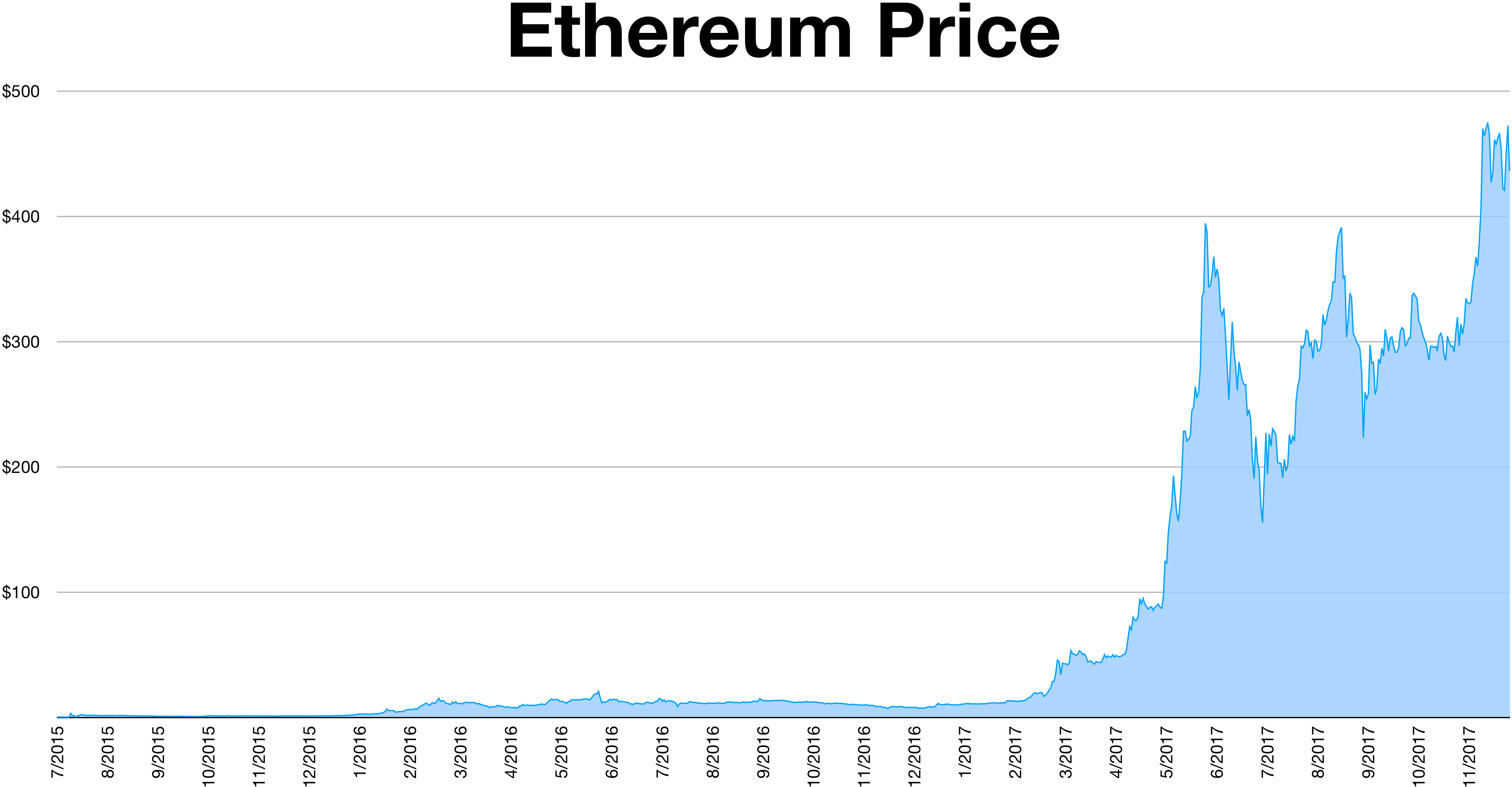 Ethereum Price History